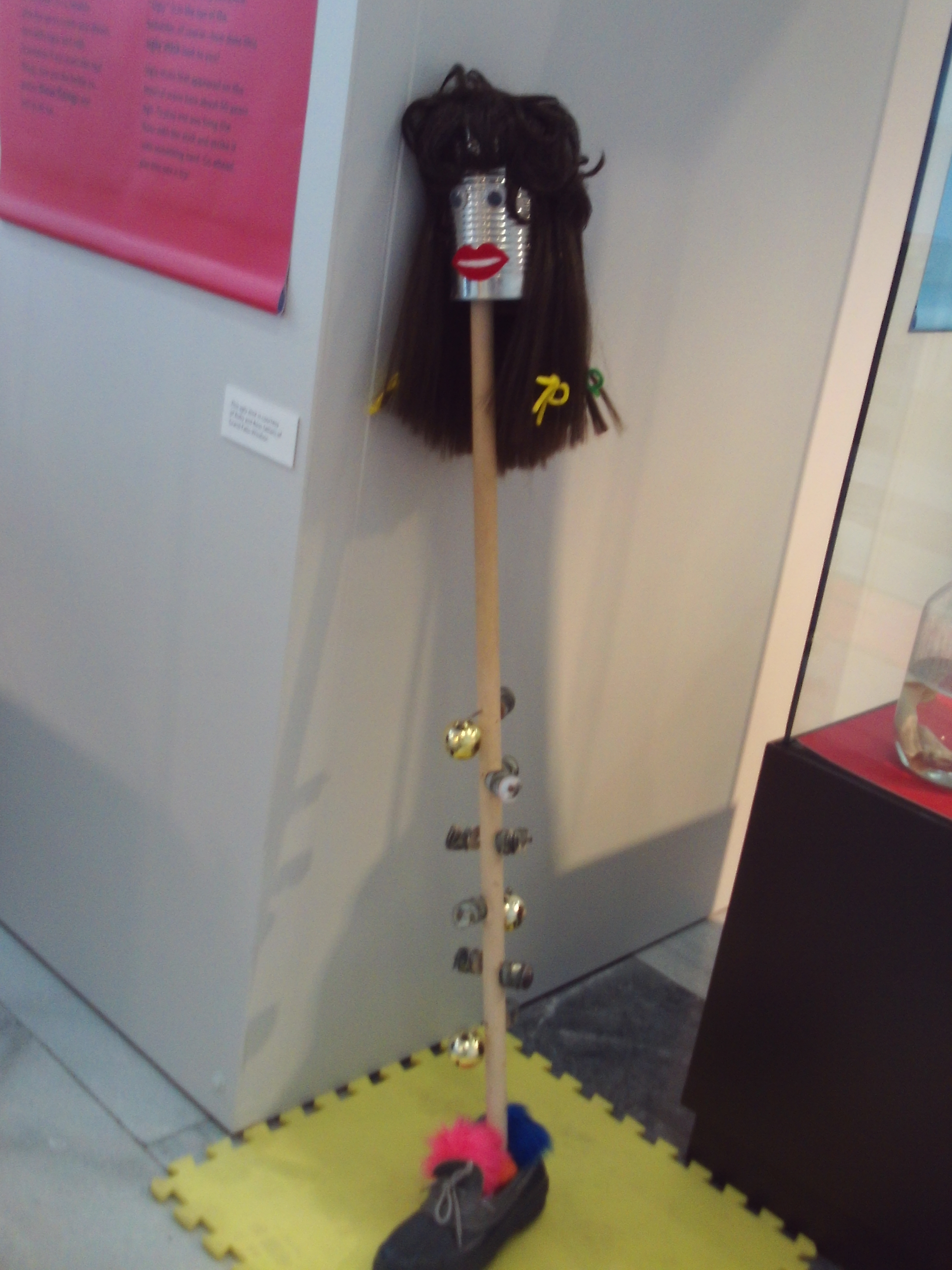 An example of an Ugly Stick, a musical instrument used in traditional Newfoundland culture.